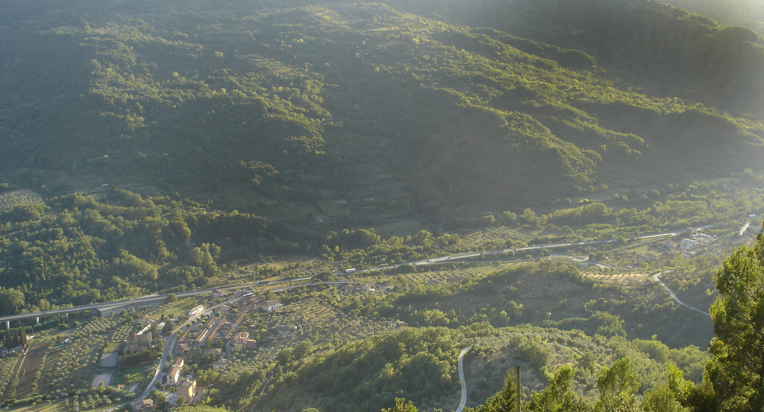 Roveto Valley